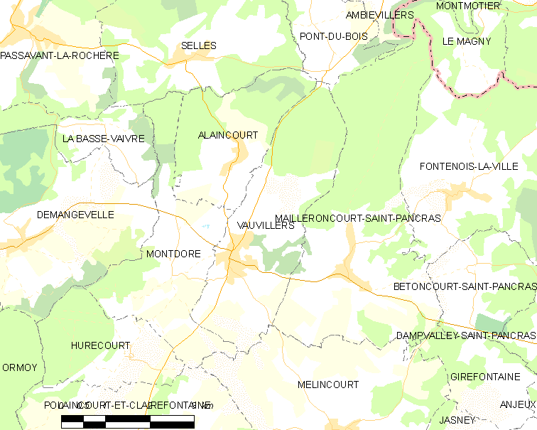 Map of French municipality